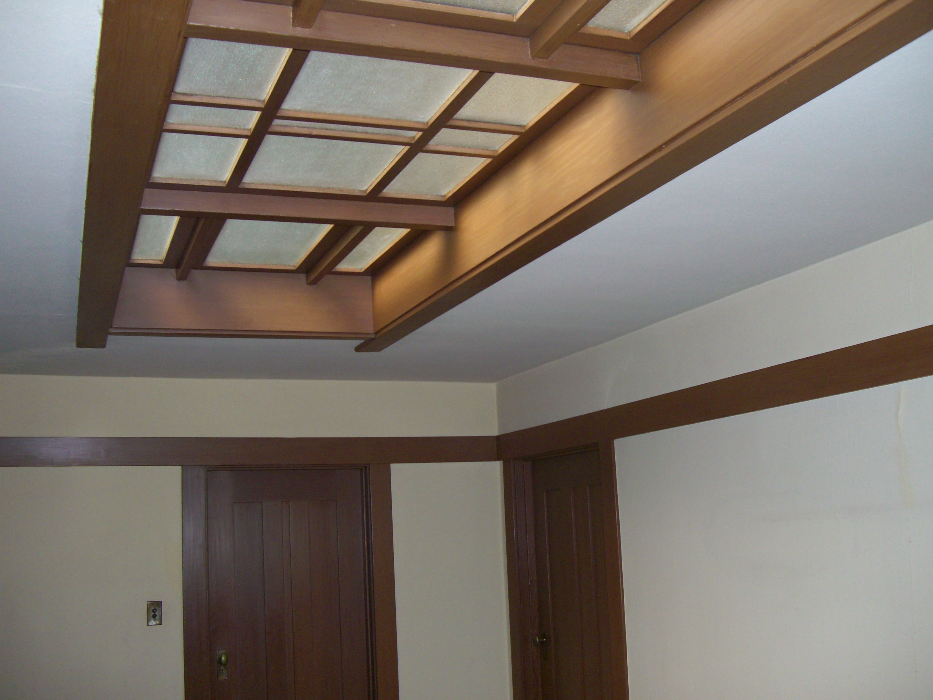 view of the Greene & Greene Spinks House (Pasadena, CA) upstairs hallway skylight